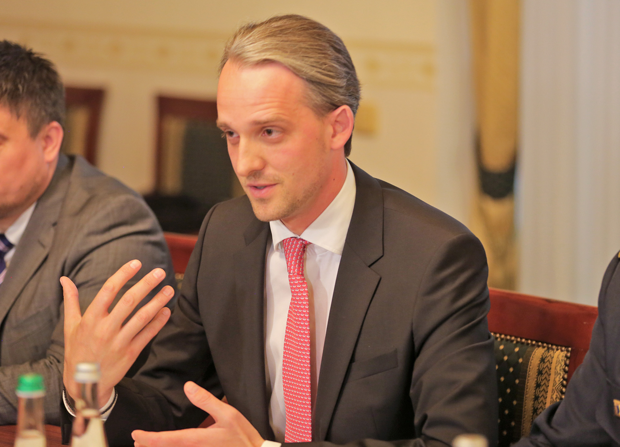 Moldovan Defense Minister Eigen Sturza